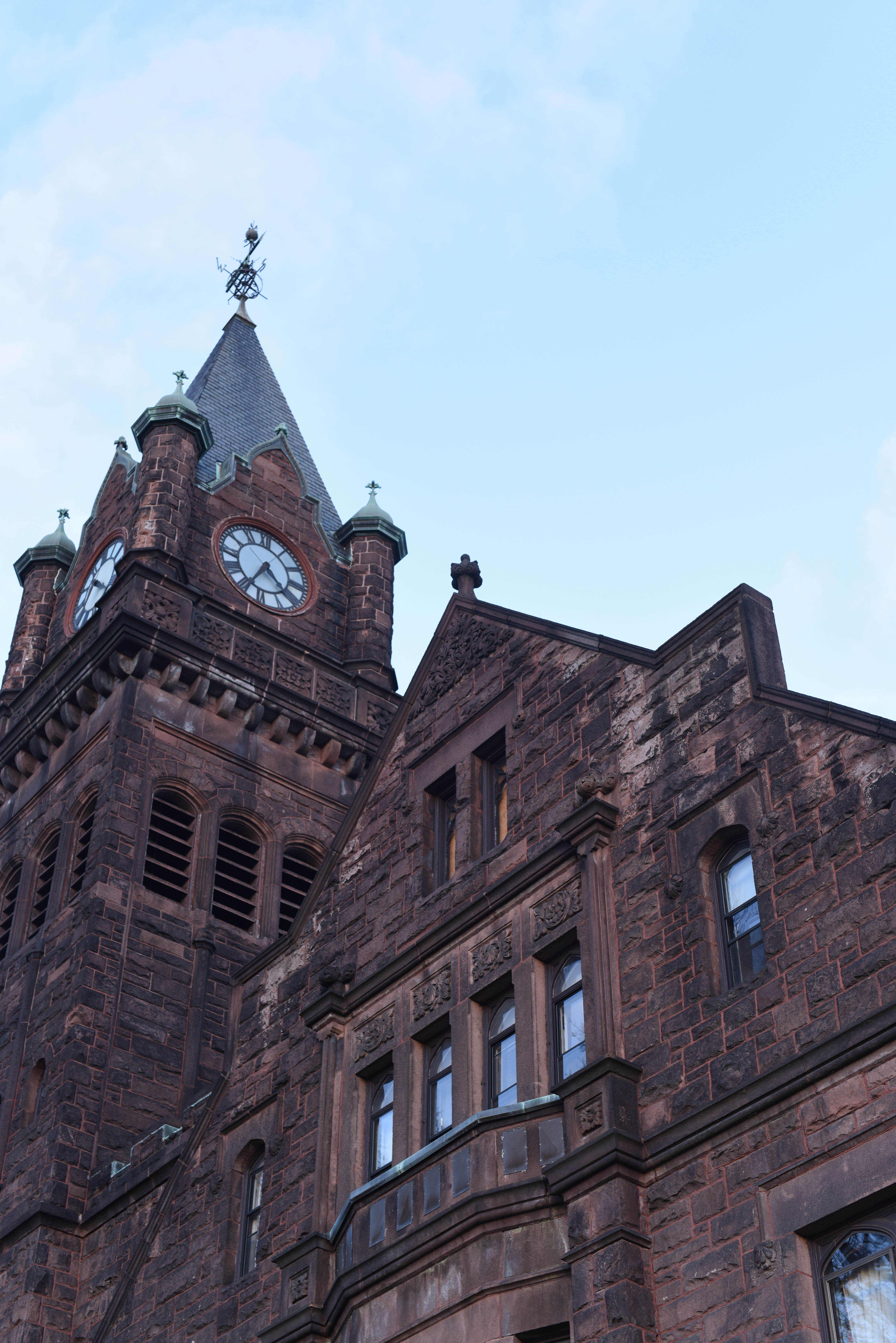 Mount Holyoke campus, clock tower in South Hadley, Massachusetts , winter 2016.